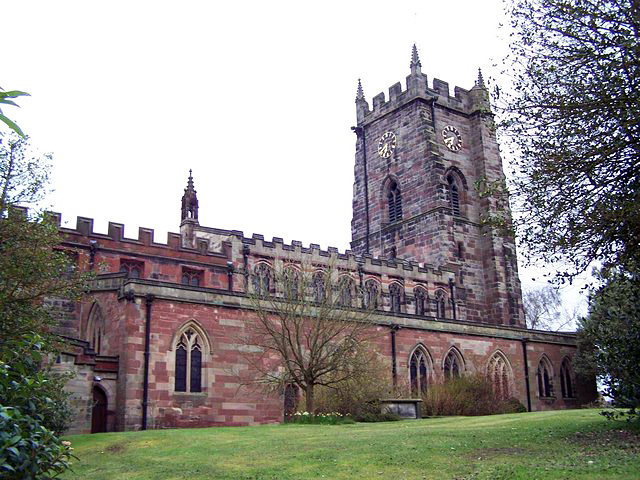 St. Mary's Church, Market Drayton, Shropshire, United Kingdom